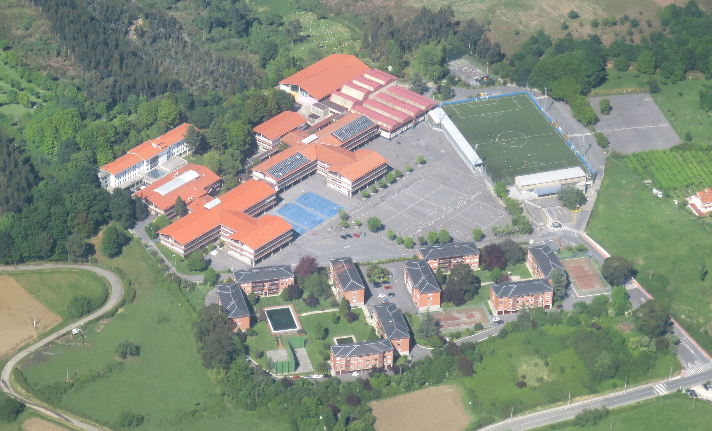 Aerial view of the Askartza Claret school near Bilbao.